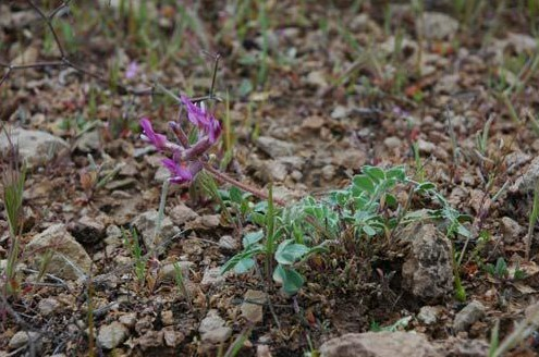 Astragalus holmgreniorum photo from USFWS document, no author info or copyright